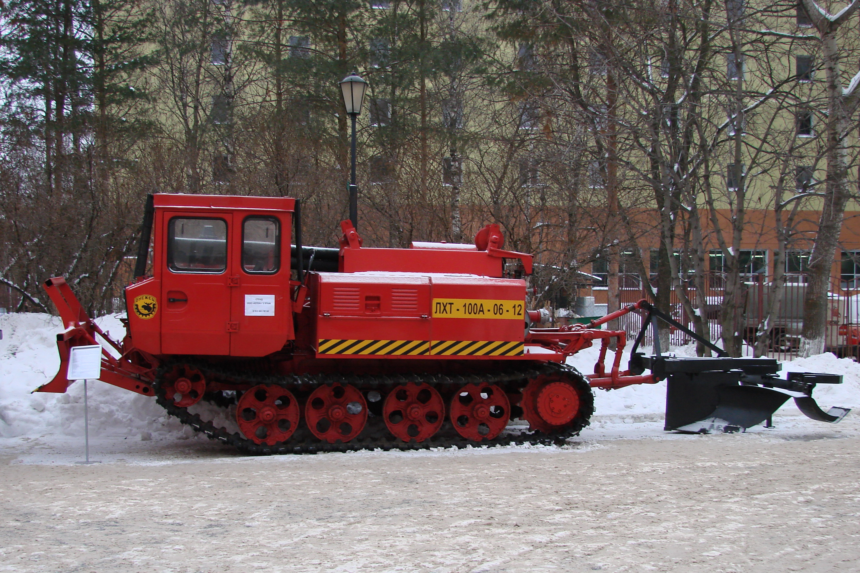 Russia, Vologda, Exhibition-Fair «Russian forest», Firefighting vehicle LHT-100А-06-12